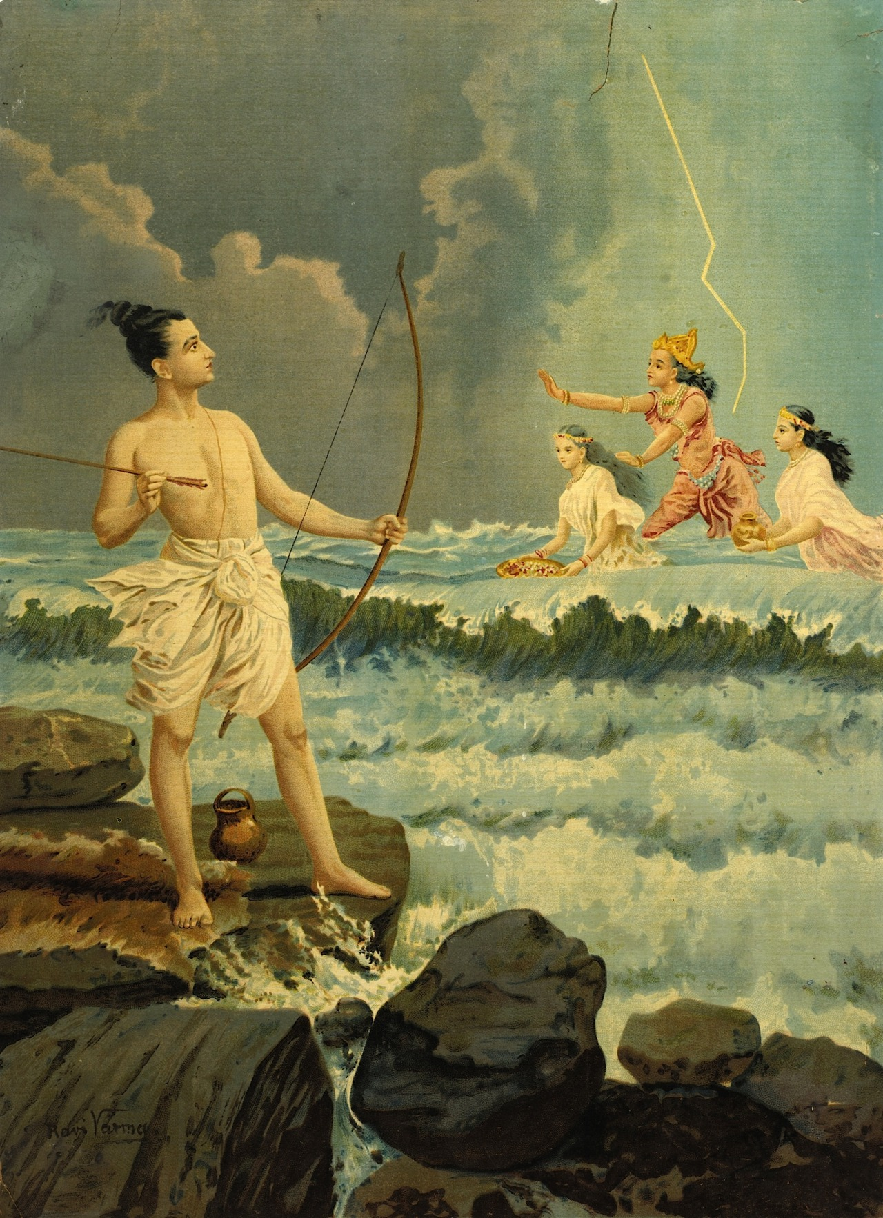 सगर Rama conquers Varuna, the sea god